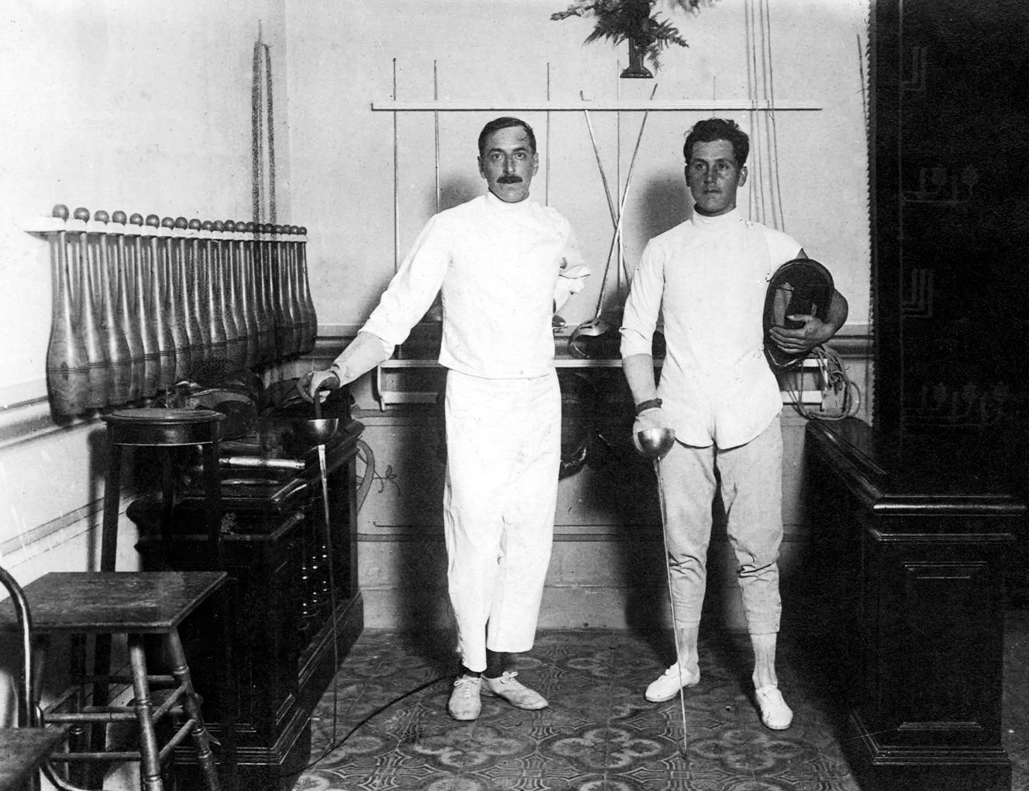 lieutenant Juan D. Perón and profesor Ángel Arias, after a fencing practise in a social party at centro Tres de Febrero of Villa Urquiza, Buenos Aires.